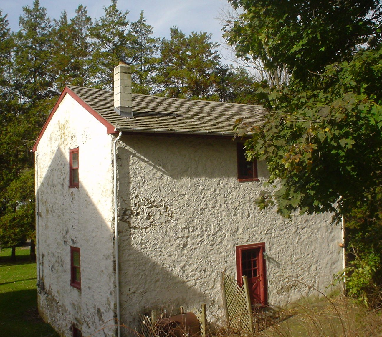 Early 1700s stone warehouse at Newlin Mill Complex near Concordville, PA. On NRHP. This is my own work and I donate it to the public domain.